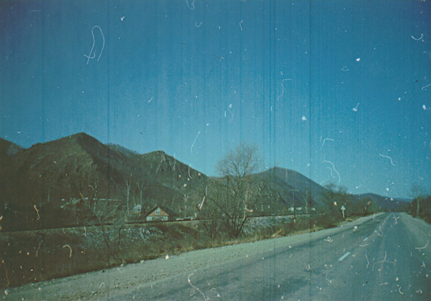 Narrow Gauge Railroad Dalpolimetall